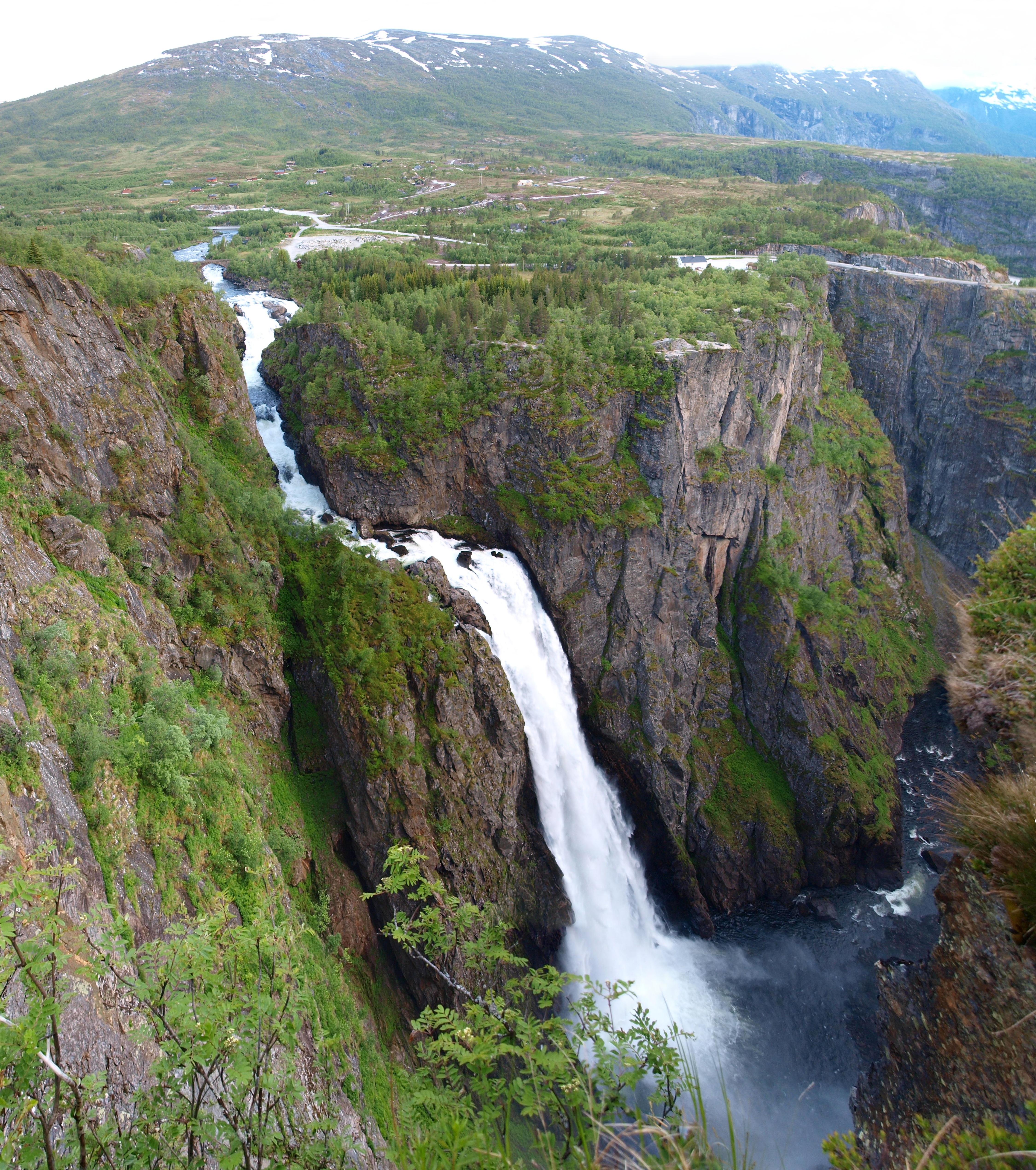 Vøringsfossen at the start of Måbødalen. The free waterfall is 145 meter, and in total 182 meter. Image is a mosaic of several photos.